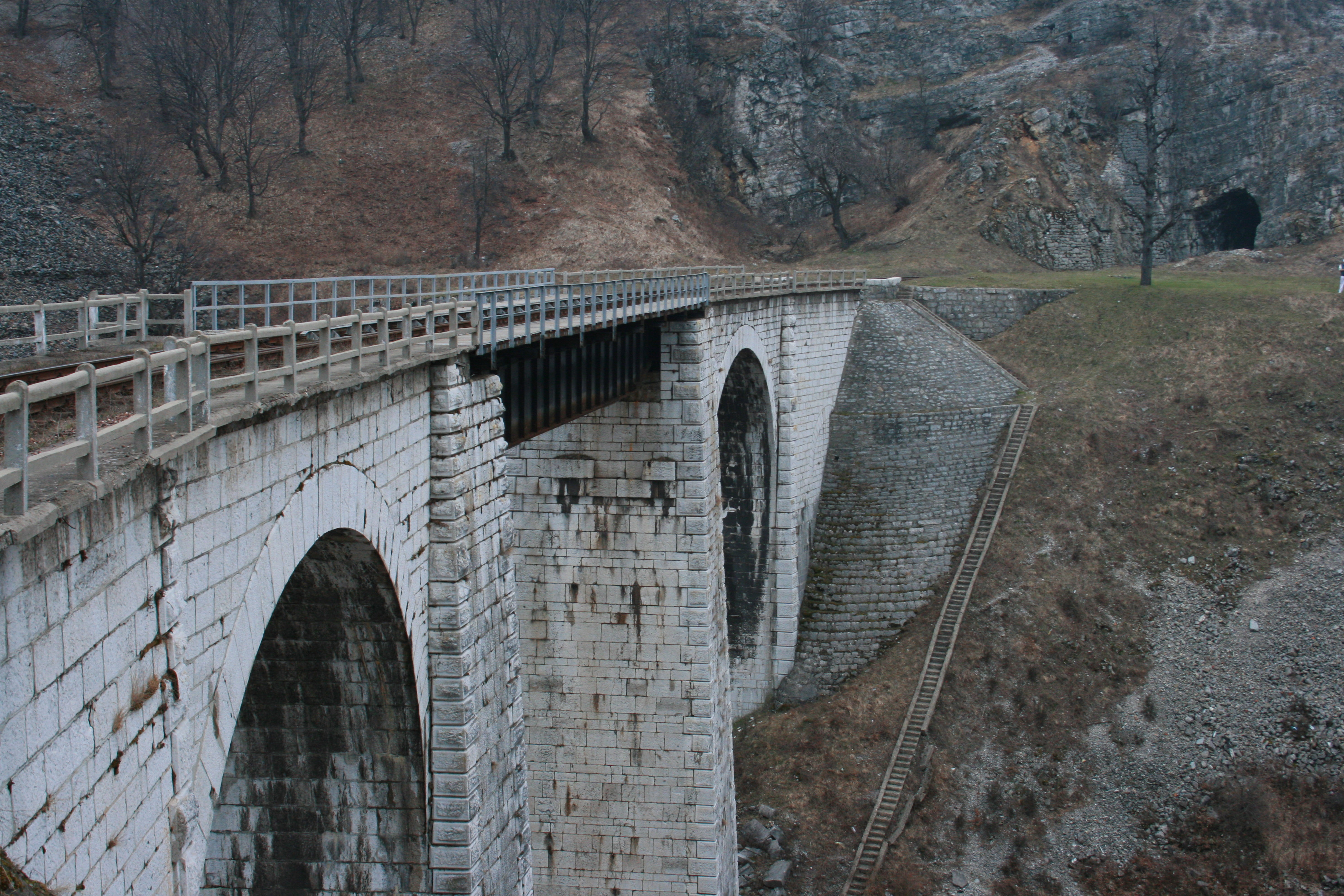 View from Oravita - Anina railway.